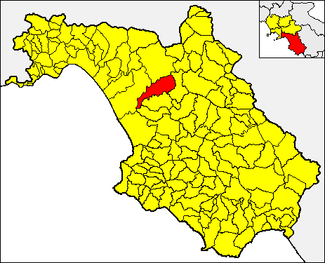 Locator map of the municipality of Serre (red) within the Province of Salerno